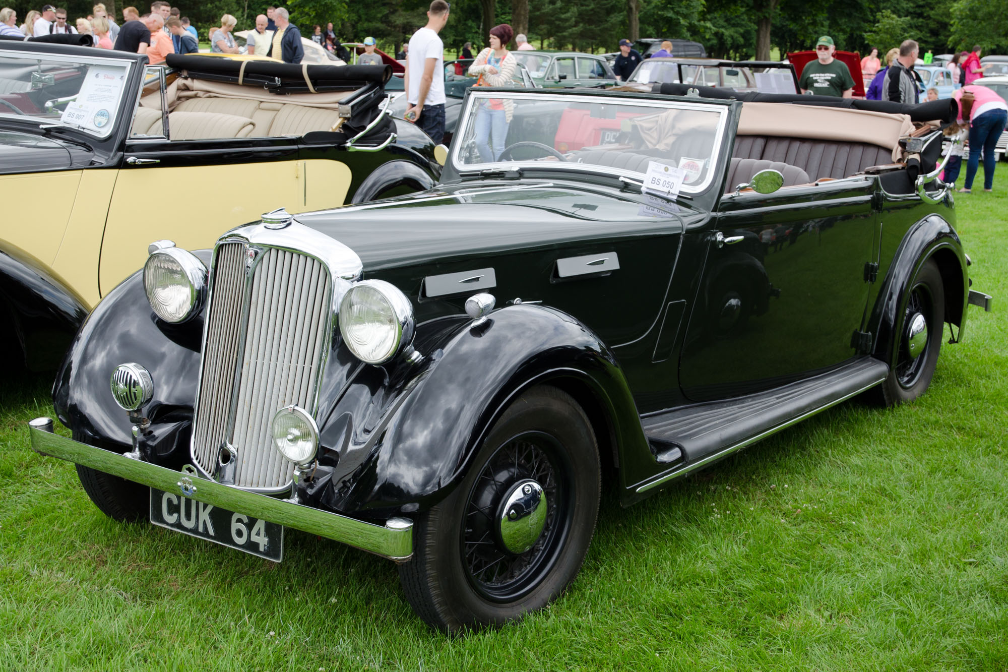 1939 Rover 16 cabriolet (DVLA) first registered 2 June 1939, 2184 cc Burnley Classic Car Show at Towneley Park 29 June 2014